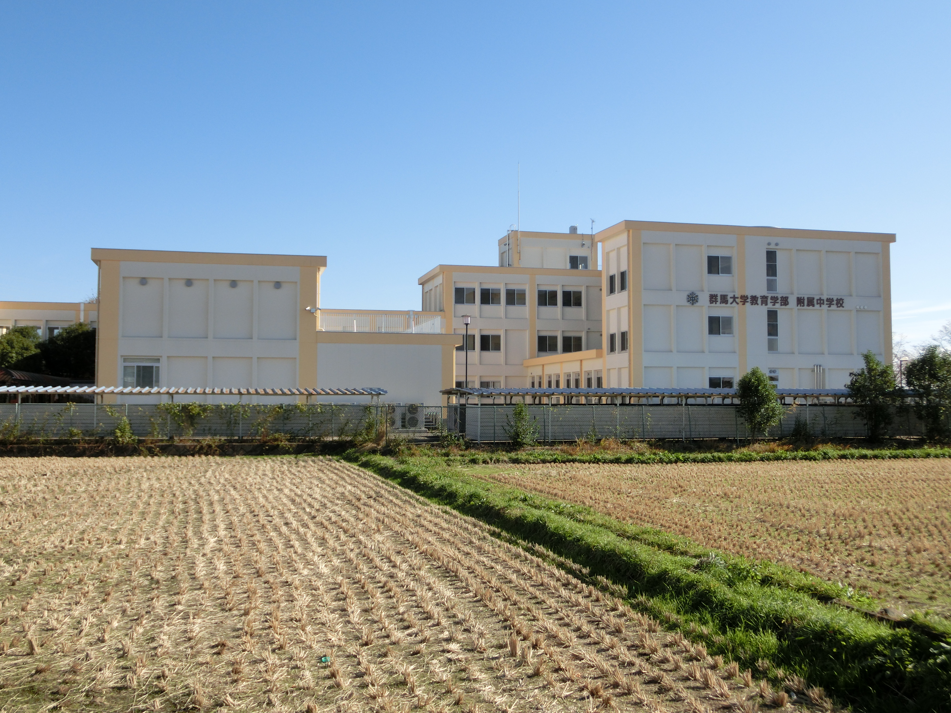 Junior High School Affiliated with Gunma University School of Education